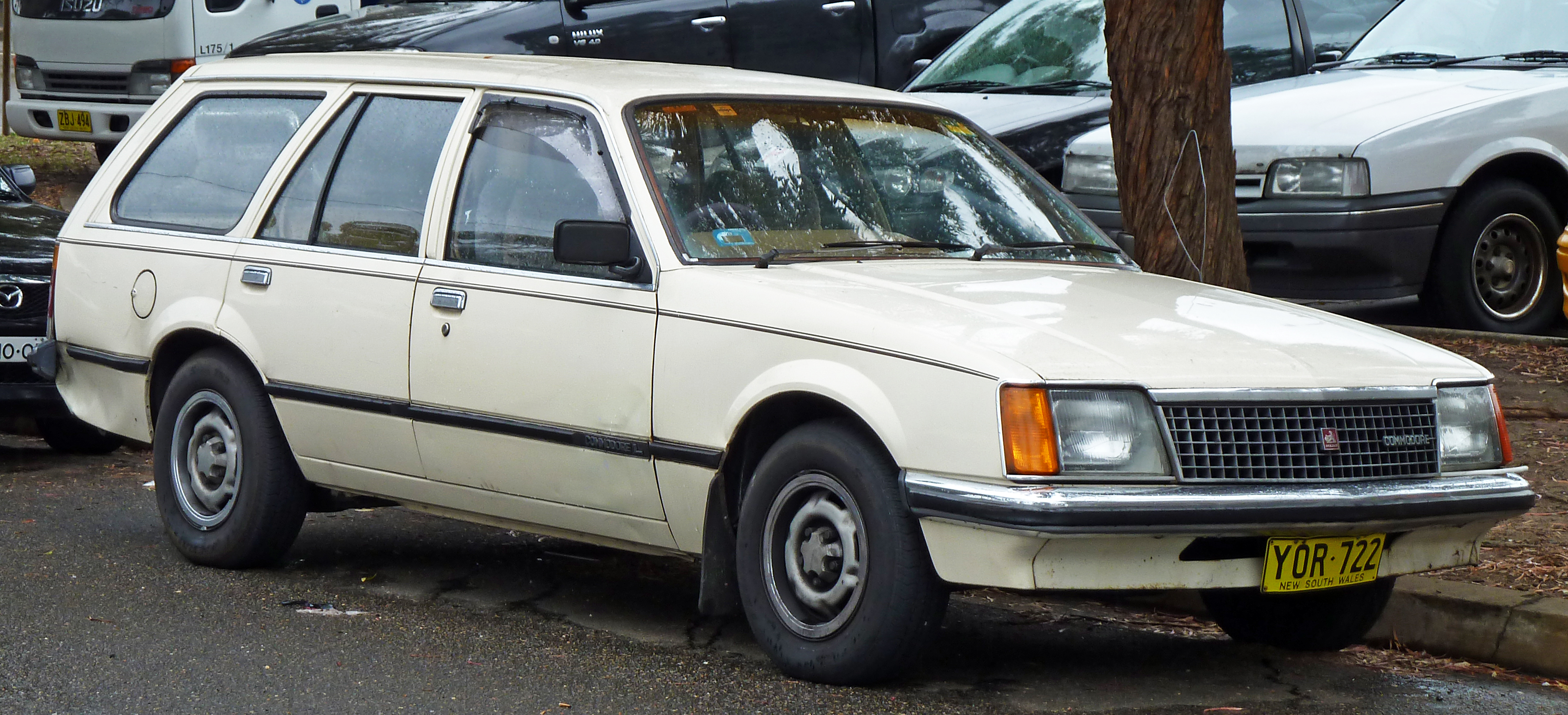 1980 Holden VC Commodore L station wagon. Photographed in Miranda, New South Wales, Australia.